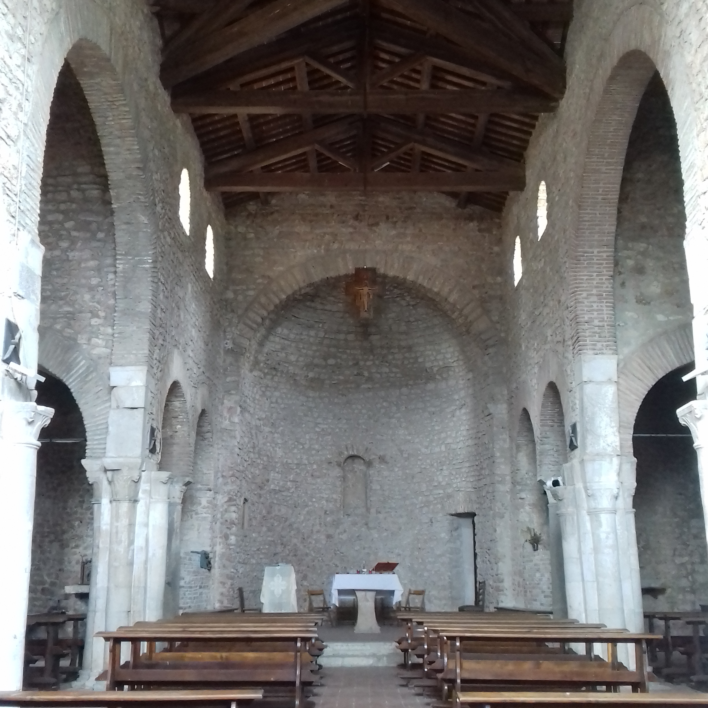 Interno